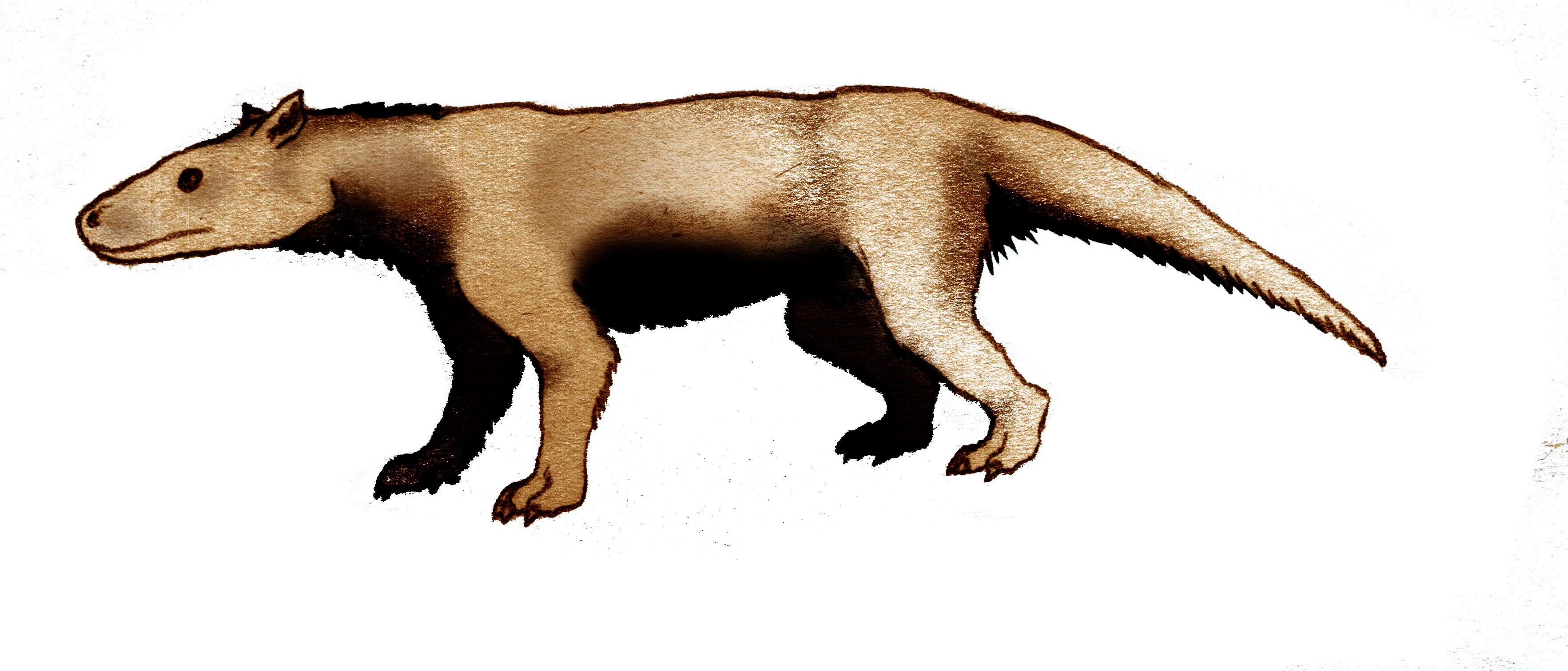 Restoration of Massetognathus, an extinct therapsid